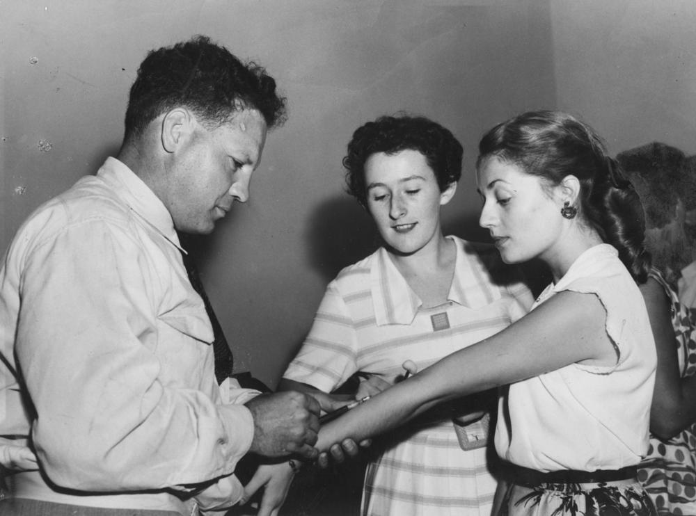 University student having a Mantoux test, St. Lucia, 1954 Mantoux tests, to show whether persons are susceptible to Tuberculosis, were given to students entering St. Lucia University today. Here, a fresher, Helen Fedorenko, gets a needle from Dr. E. M. Rathouse. Mary McGovern, a third year student, assists. (Description supplied with photograph).